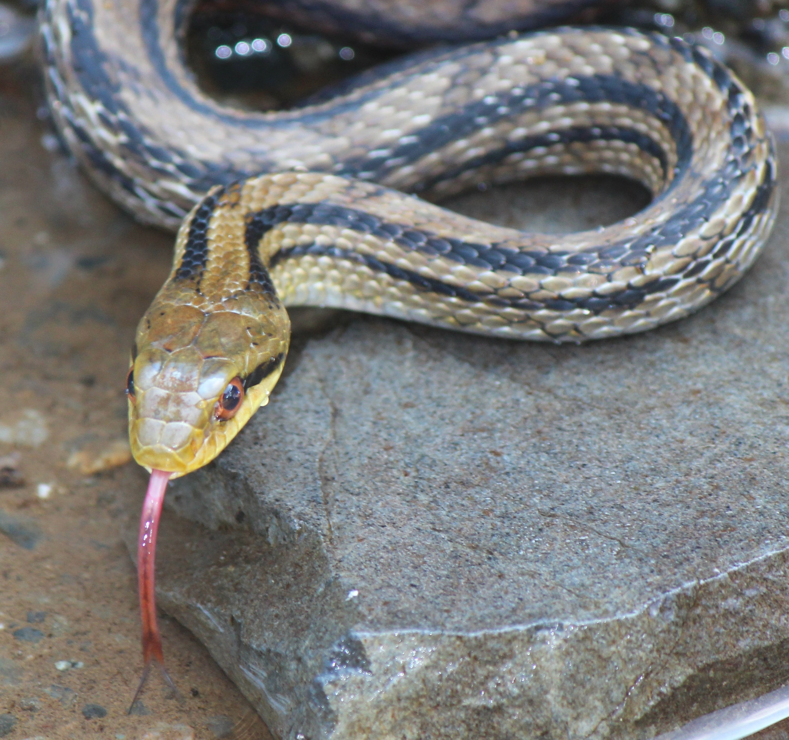 Elaphe quadrivirgata (Japanese striped snake), in Mount Yōrō Japan.